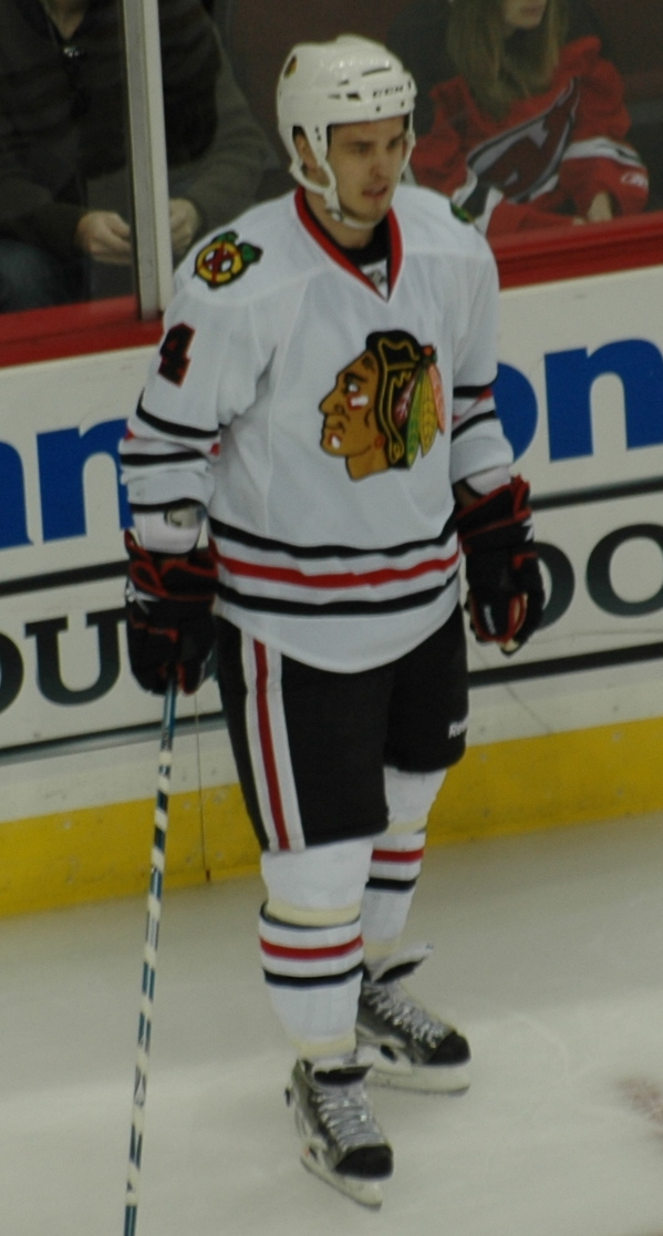 Niklas_Hjalmarsson plays with Blackhawks in New Jersey